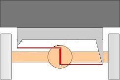 Diagram of Watts Linkage - modified by Gerald Zuckier from Image:Panhard rod.jpg